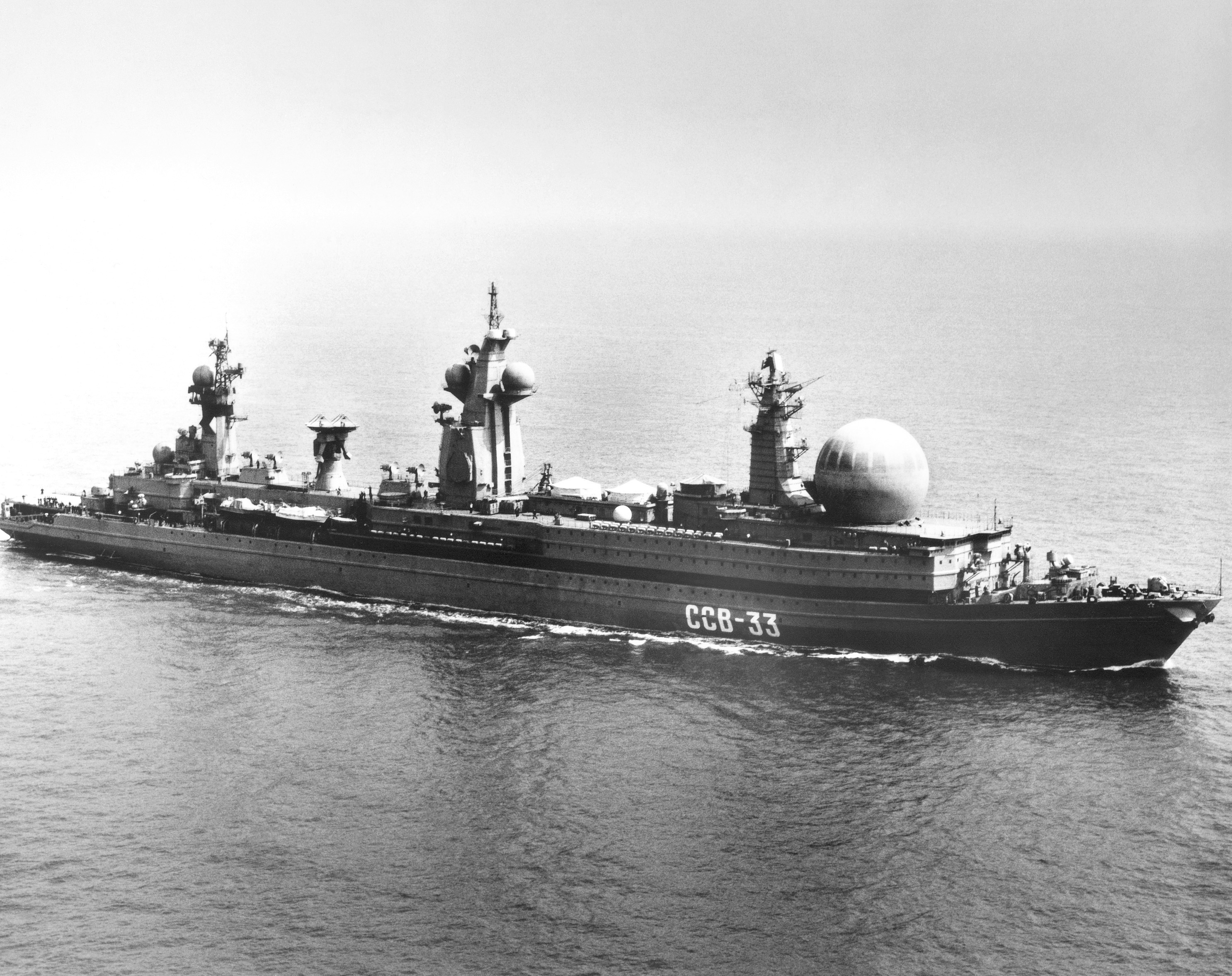 SSV-33, Project 1941 Titan - Kapusta class, dated January 1, 1988